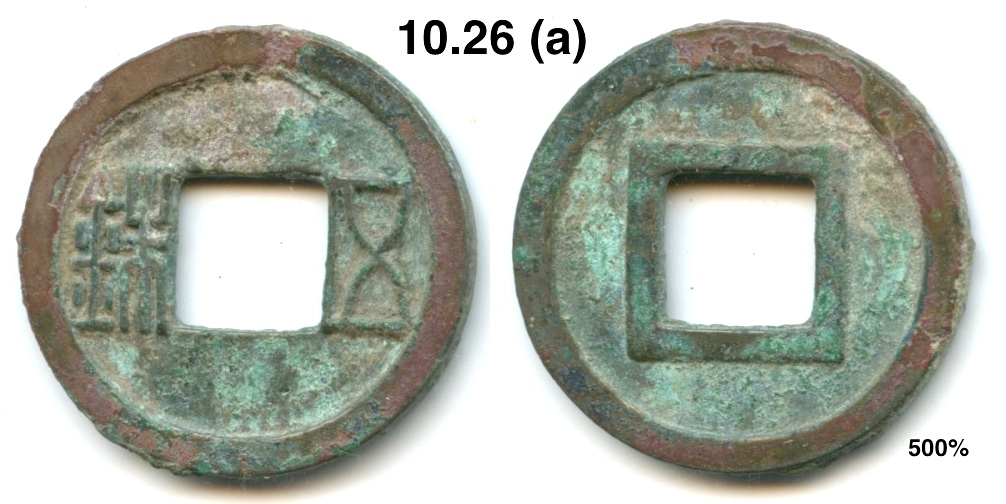 WU ZHU - EASTERN HAN & LATER FROM AD 25 PHOTO H# DESCRIPTION DETAILS PRICE 10.10 Wu Zhu: Full rims Small coin with full inner and outer rims both sides. Kingdom of Shu, 221-263, Szechuan (not Gansu). 21.50mm, 2.14gm. S224 F, very crusty $ 30.00 10.18 Wu Zhu, iron Outer & inner rims both sides, long dashes at corners reverse. Avg. 19-21mm, 3gm. Liang Dynasty, 523 AD S232 SAMPLES shown. Vg $19.50; Fine $ 27.50 10.25W Wu Zhu: Right Rim, Bulk Western Wei Dynasty, late issues of Emp. Wen, ca. 547 AD. Mixed sizes & weight from an uncirculated hoard, slightly crusty with red & green patina. SAMPLE LOT shown. Per-10 pieces: $ 30.00 10.26 Wu Zhu: Right Rim Type: Zhu head straightt, hour glass wu. Called the White Coin for the silvery quality of the metal. Sui Dynasty, late issues of Emp. Wen, ca. 547 AD. 23.5mm, 2.88gm. EF $ 50.00 10.27 Wu Zhu: Outer ring Thread ring, or Yan Huan. Late Eastern Han. S304, 305 SAMPLES shown: Brown VF (cleaned & retoned) $12; Green VF (fairly even patina, sharp characters) $ 12.00 10.29 Wu Zhu: Tiny, sharp Tiny, well-made with deep fields. Western Han Dynasty, Emp. Wu Di Distinctive type, a burial coin according to Roger Doo. 12mm, avg. 0.63gm. S208-210 FD597, S208-210 shown: F-VF, crusty $5.00; Hoard EF-UC chalky gray, or brown EF $ 15.00 10.32 Wu Zhu Eastern Han, Dot above hole, note Zhu is slightly larger than the hole, distinguishing from W. Han issues. S260 Hoard, probably as-made, but look Fine. Cleaned. Samples shown. ($4 each per 5+) $ 6.50 10.33 Wu Zhu: Corner lines "Four horns," short strokes at obverse corners. S178a SAMPLES shown: EF, crusty $19.50; VF, grn/brn $21.50; EF, brown $ 26.50 10.49 Qiuzi Wuzhu FD-nl, S-nl, HG190/3, XN67a F+, green $ 225.00 10.72 Wu Zhu: control marks Middle E. Han, dash below Zhu, "eleven" rev. L. Control marks for licensed feudal mint. F $ 40.00 10.75B Wu Zhu: control marks Middle E. Han, two dots above hole, control devices of a licensed feudal mint. F+, crusty $ 25.00.